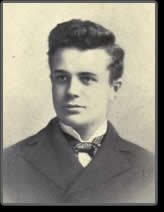 Portrait of Albert Sonnichsen, American journalist exploring the IMRO struggle in Macedonia